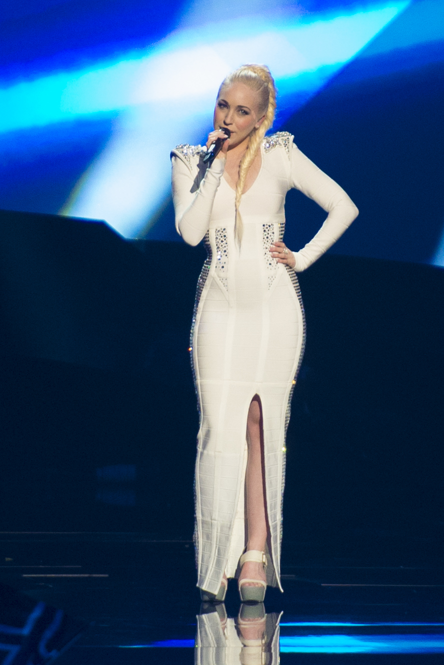 Margaret Berger representing Norway with the song "I Feed You My Love" during the second dress rehearsal of the second semi final of the Eurovision Song Contest 2013 in Malmö. (Help translate this text)